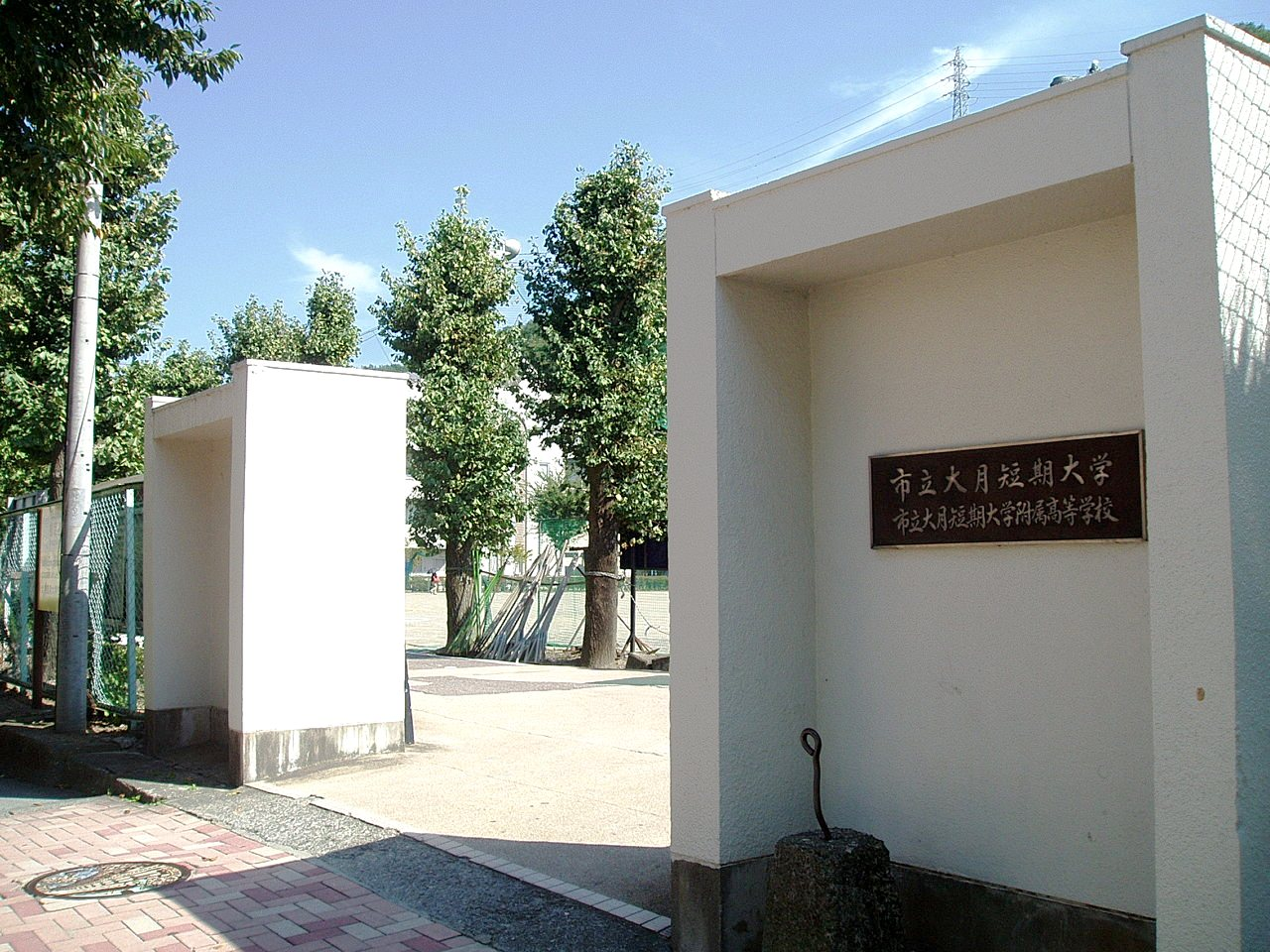 Main entrance to Ohtsuki City College located in Ōtsuki, Yamanashi, Japan.